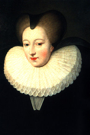 Catherine de Parthenay (1554-1631)